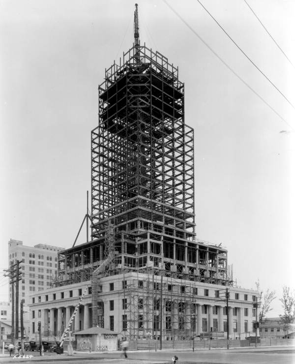 Local call number: RC10736 Title: Dade County courthouse under construction Date: June 1, 1927 Photographer Photographic Collection" AND photographer:"Fishbaugh, W. A.(William A.), b. ca. 1873"&searchbox=1&query=Fishbaugh, W. A.(William A.), b. ca. 1873&year=&gallery=0&search-type= Physical descrip: 1 photoprint - b&w - 8 x 10 in. Series Title: Repository: 500 S. Bronough St., Tallahassee, FL 32399-0250 USA. Contact: 850.245.6700. Persistent URL